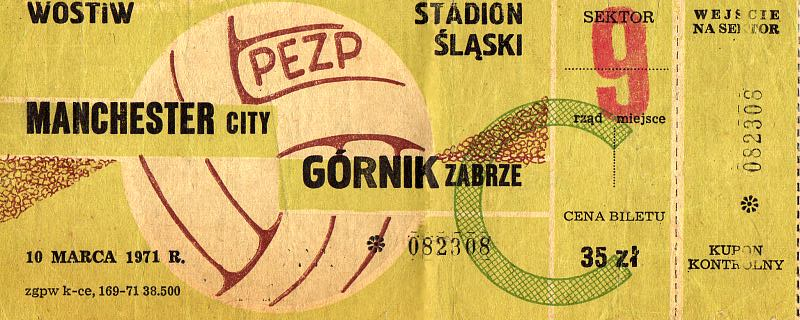 Ticket to footballmatch Manchester City – Górnik Zabrze, 1971 03 10 in Chorzów (Poland)